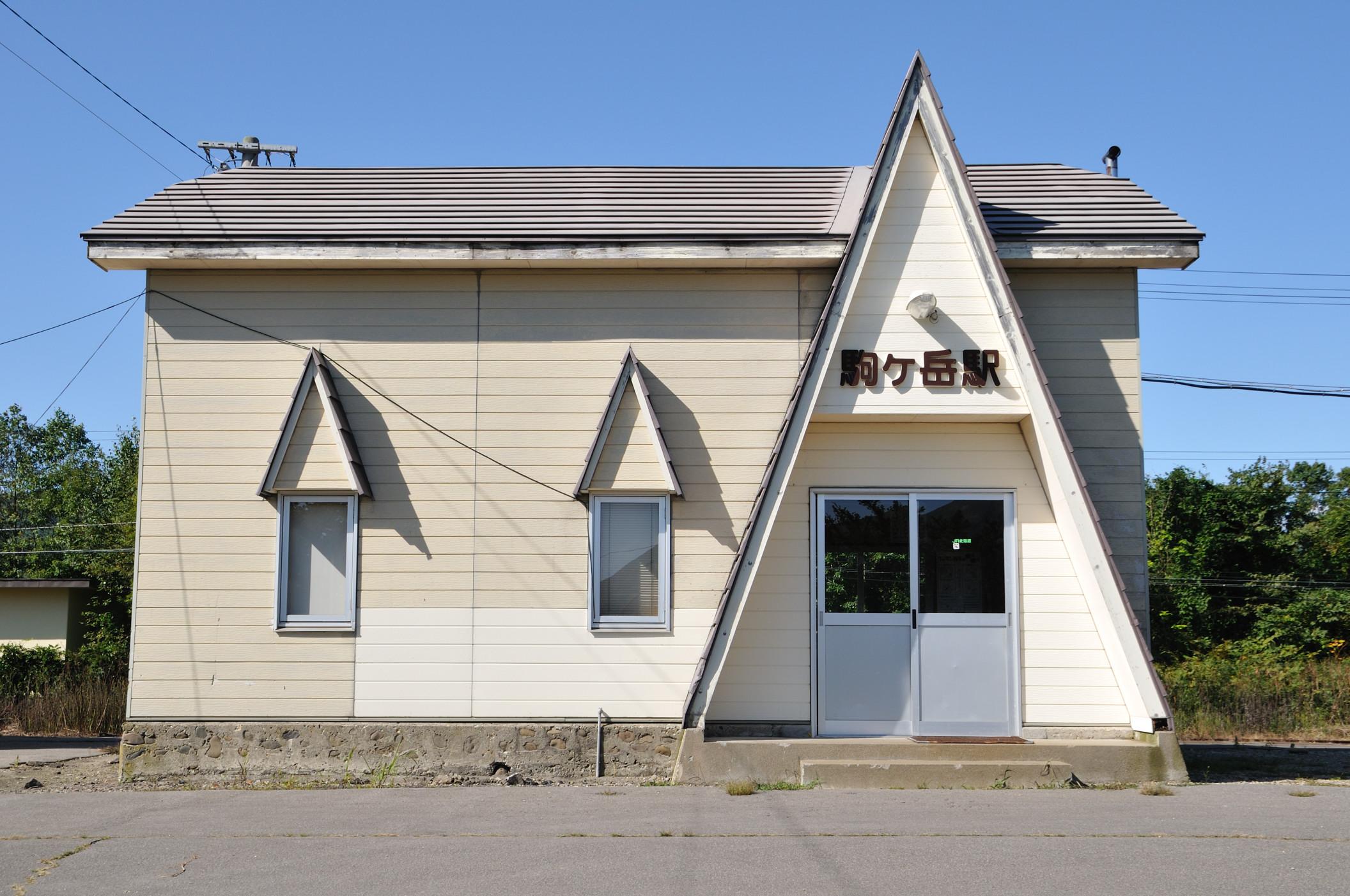 JR Hokkaido Komagatake station, Mori, Hokkaido, Japan